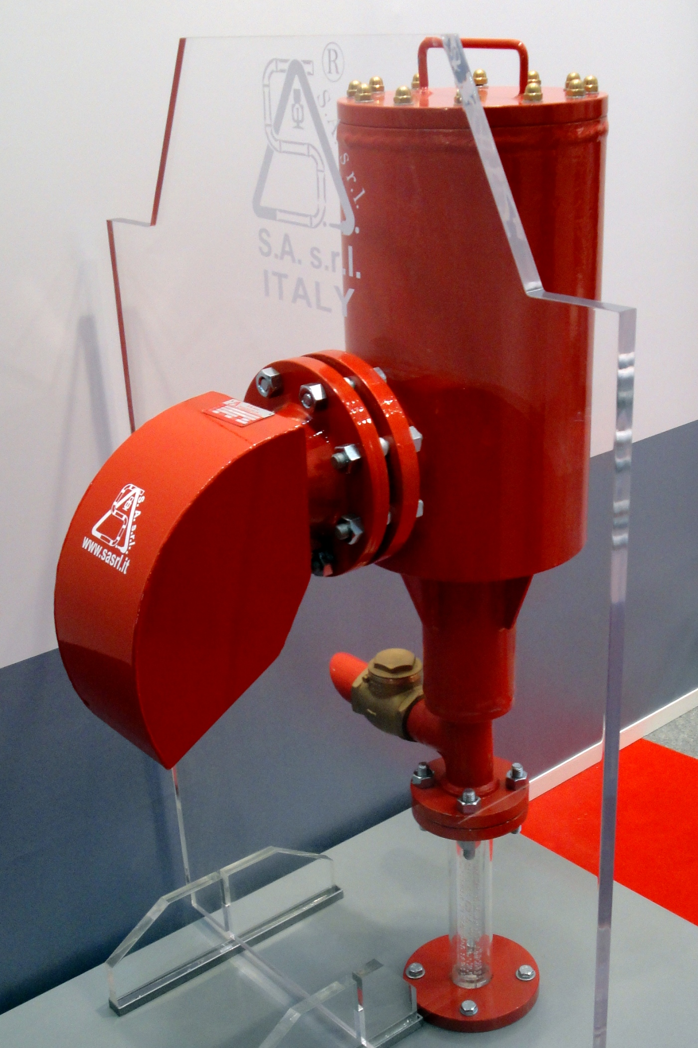 Foam chamber CS and foam pourer VS1, S.A. s.r.l. Italy, Interschutz 2010